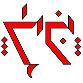 Ithkuil in its native script